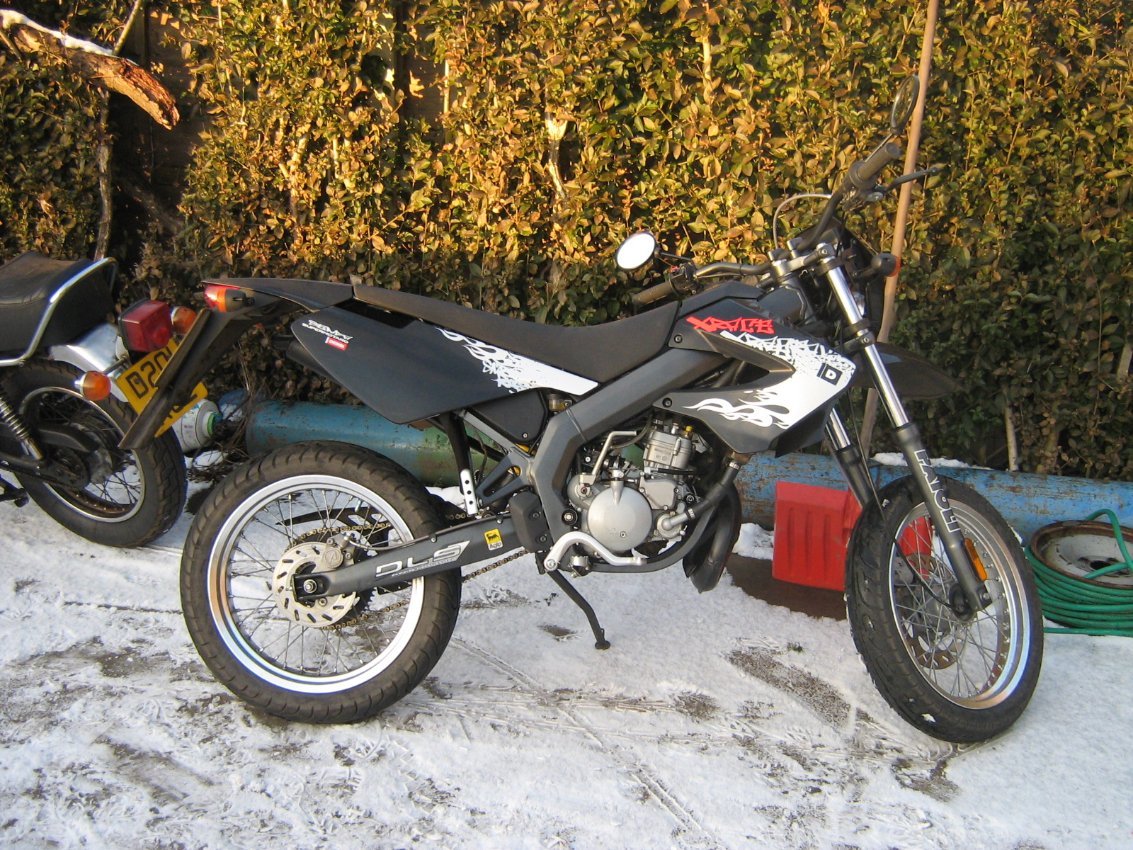 derbi senda X-Race 50 sm